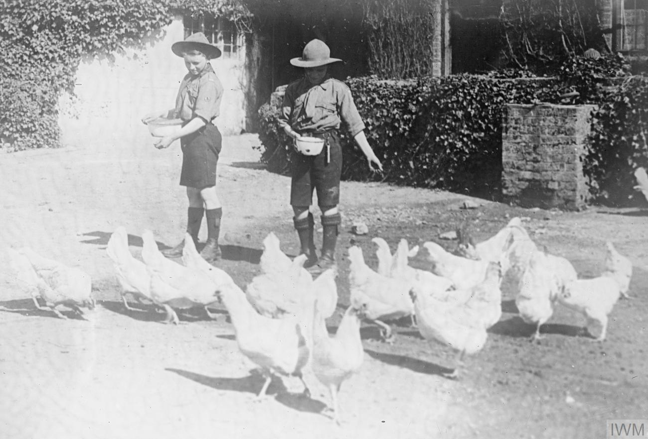 The Boy Scouts Association in Britain, 1914-1918 Boy scouts working as farm hands, feeding poultry.